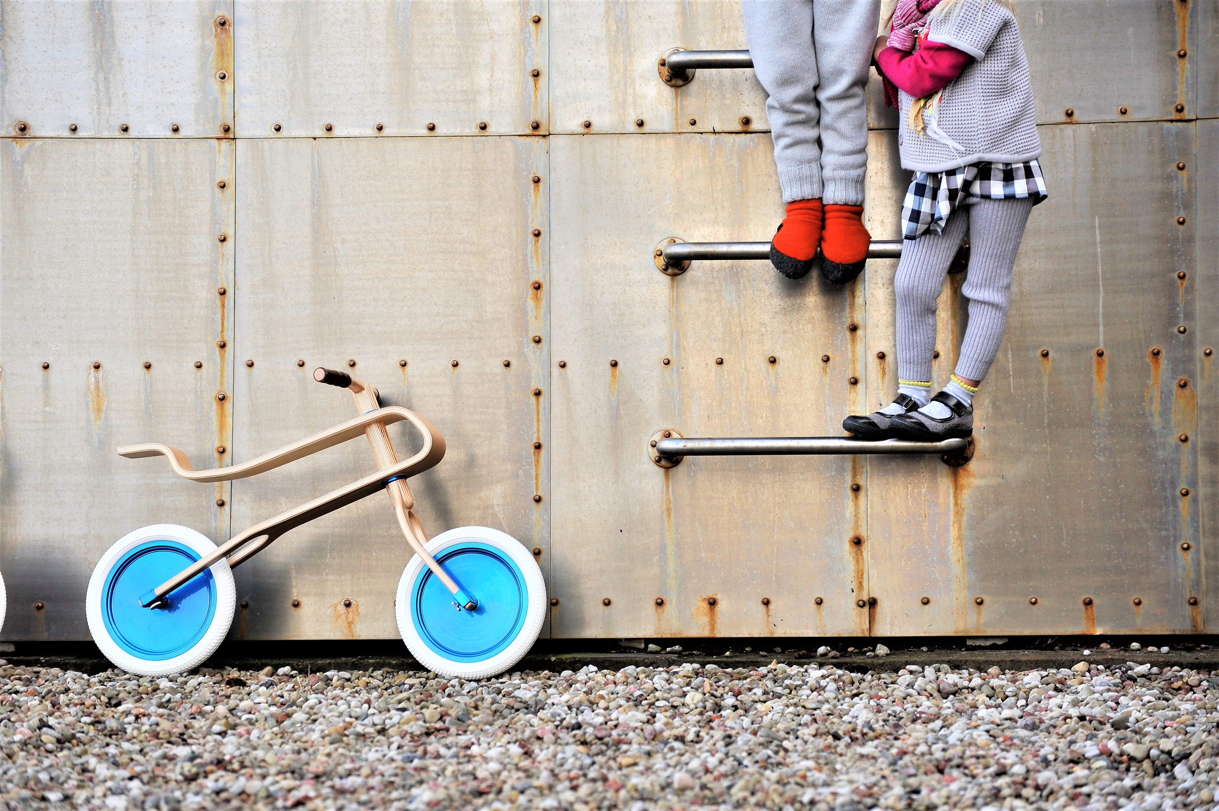 Next generation wooden balance bike for kids